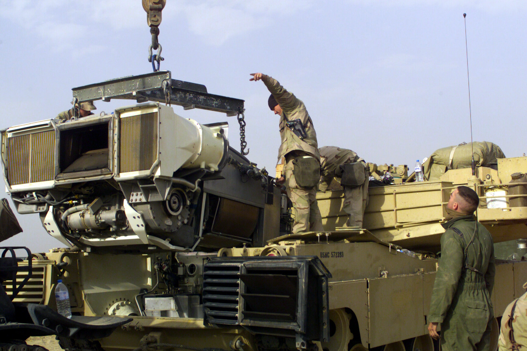 Marines from 1st Tank Battalion, Twentynine Palms, California, load a Honeywell AGT1500 gas turbine engine from an M1A1 Abrams tank engine back into the tank at Camp Coyote, Kuwait during Operation ENDURING FREEDOM. Location: TA COYOTE